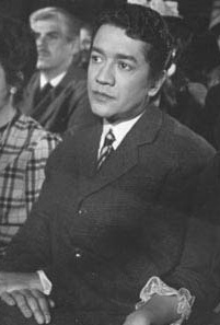 Luis Medina Castro- actor